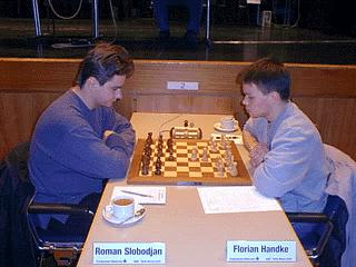 Florian Handke - Roman Slobodjan (left), German chess championship 2001 at Altenkirchen (Westerwald), Photographer Gerhard Hund.